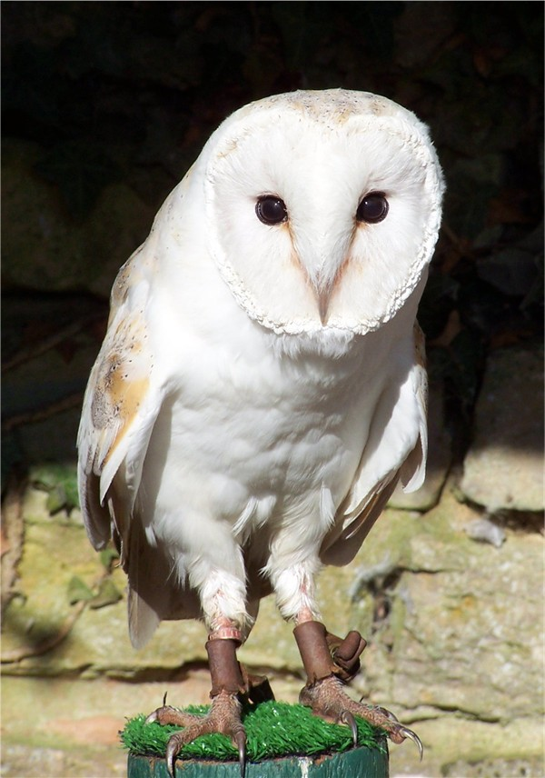 Barn Owl taken by kev747